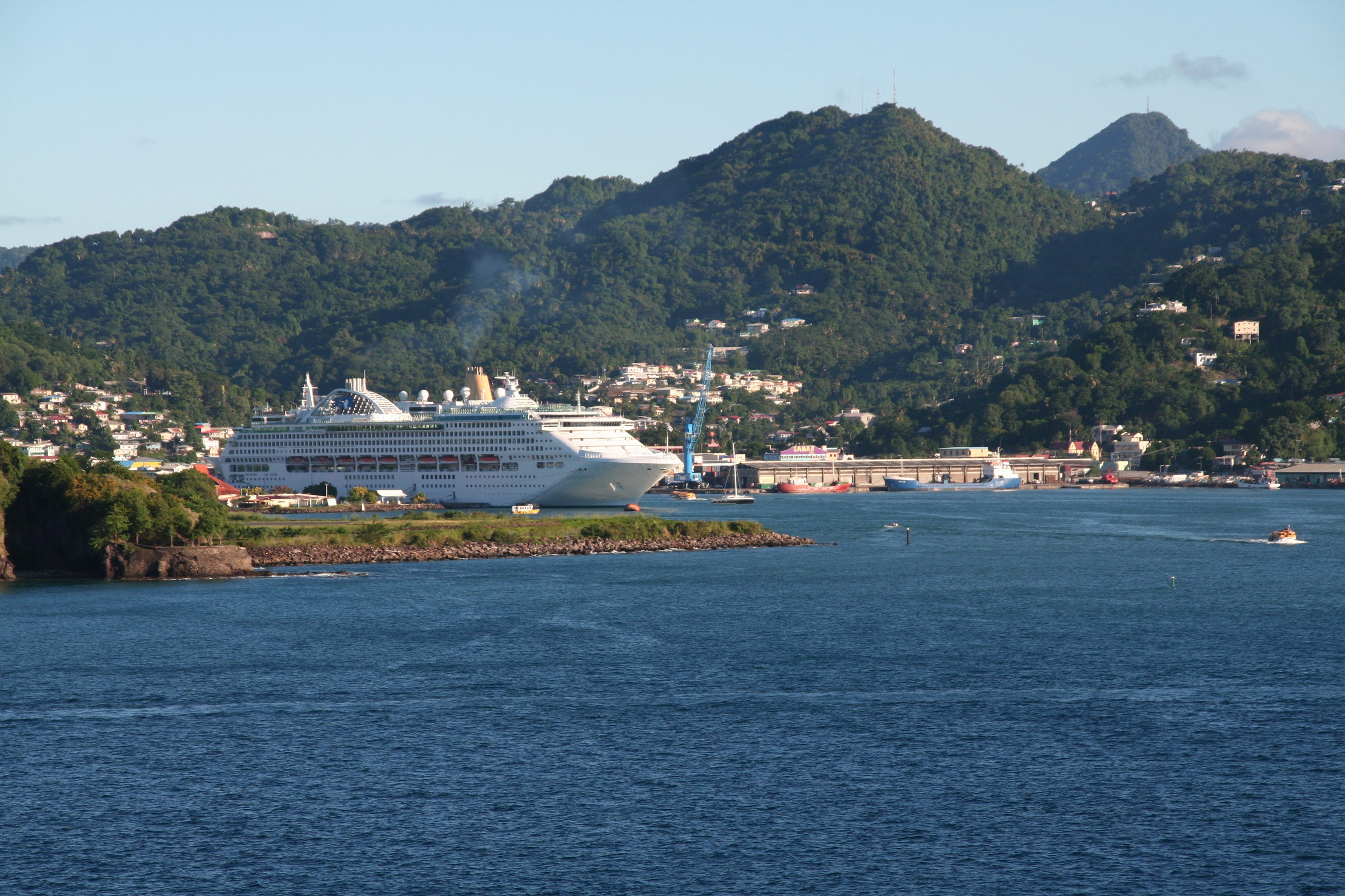 Harbor of Castries, St. Lucia